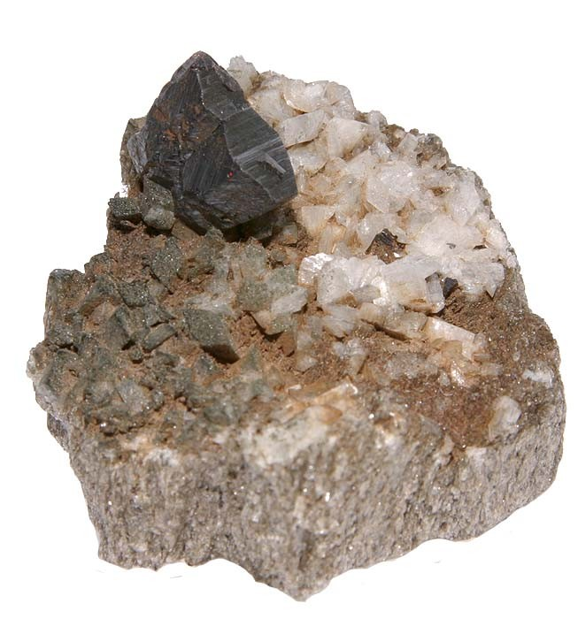 Rutile Locality: Lercheltini (Lärcheltini) area, Binn Valley, Wallis (Valais), Switzerland (Locality at ) Size: 5 x 4 x 4 cm. A very rare locality piece featuring a rare matrix rutile of relatively large size, for the Swiss Alps. The crystal is 1.7 cm, and is sharply twinned. Ex. Eric Asselborn Collection.